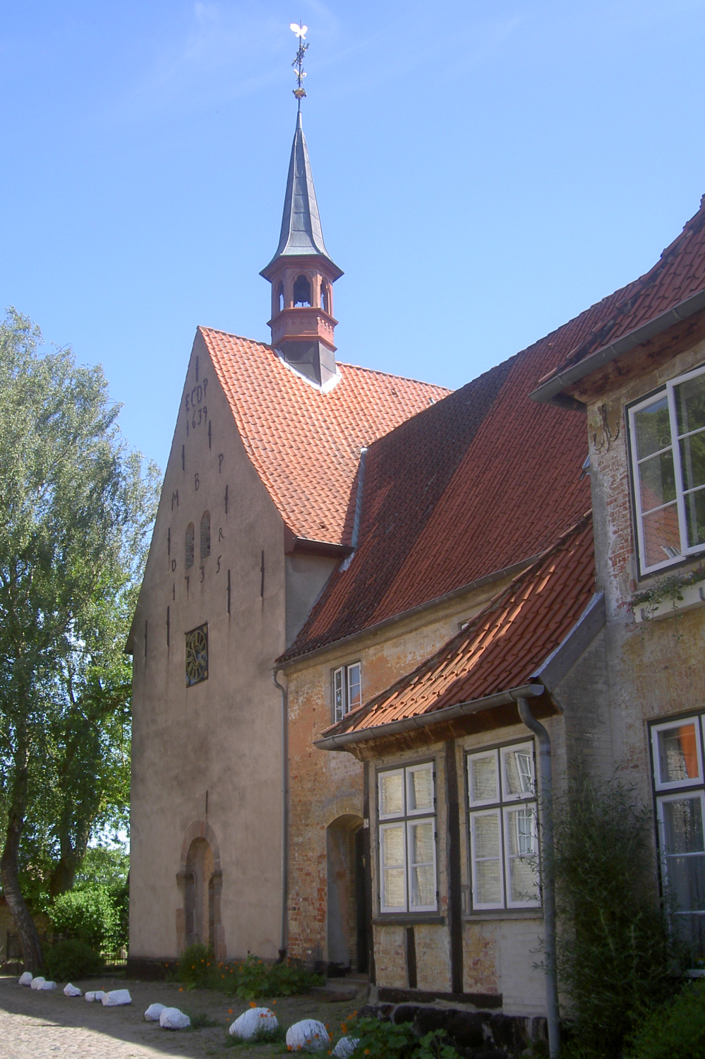 St. John's monestary in Schleswig.